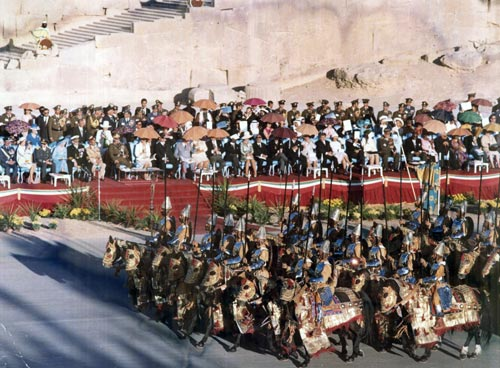 2500 year celebration of the Persian Empire